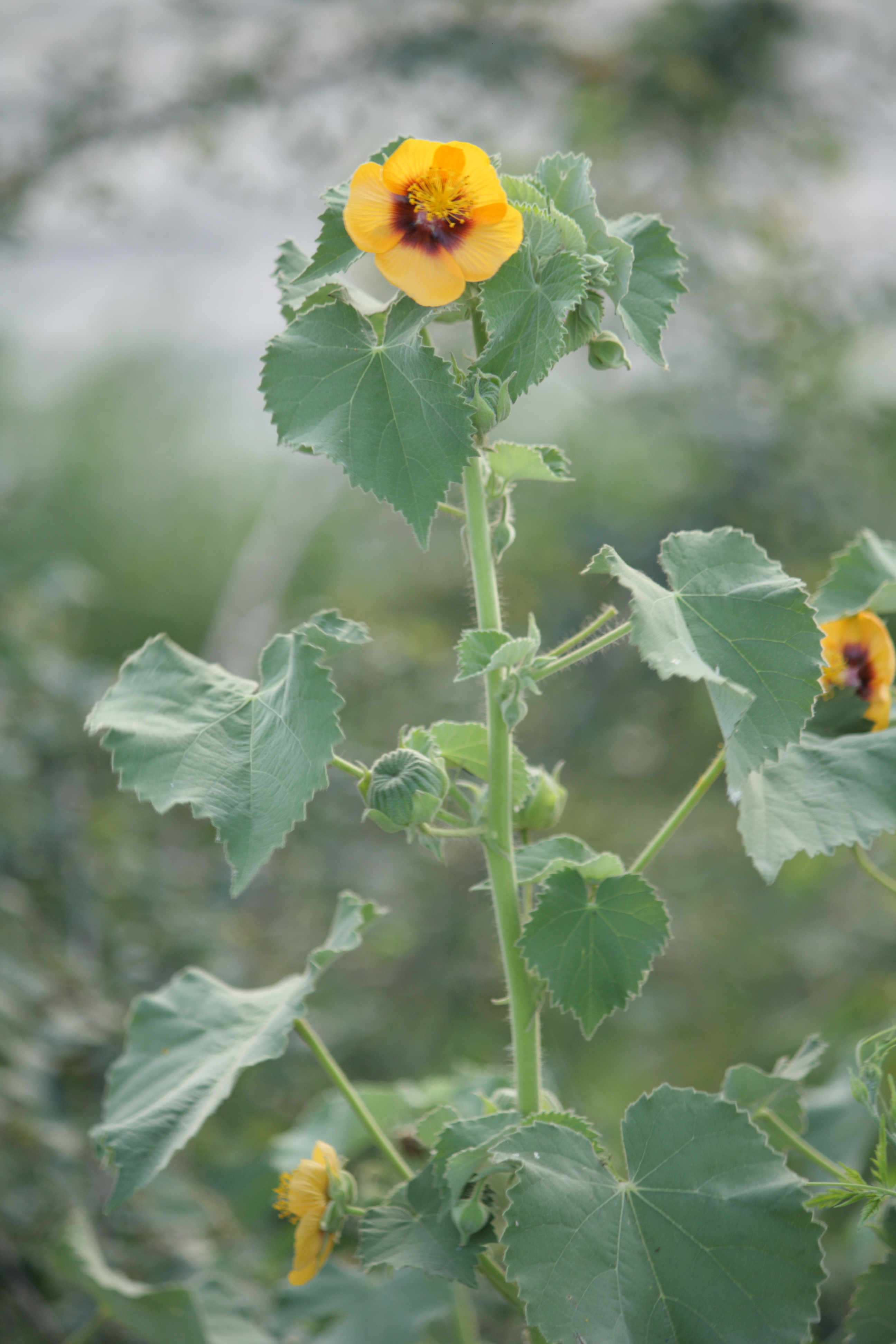 Indian Mallow plant with flower